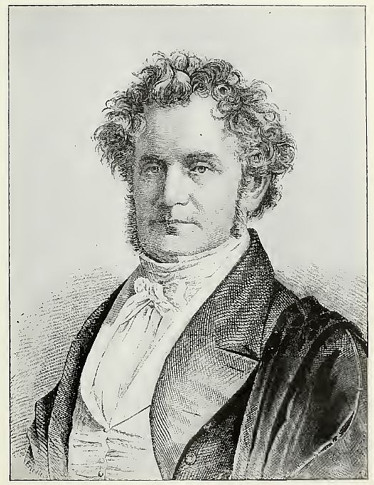 Engraving of Peter Force in 1815